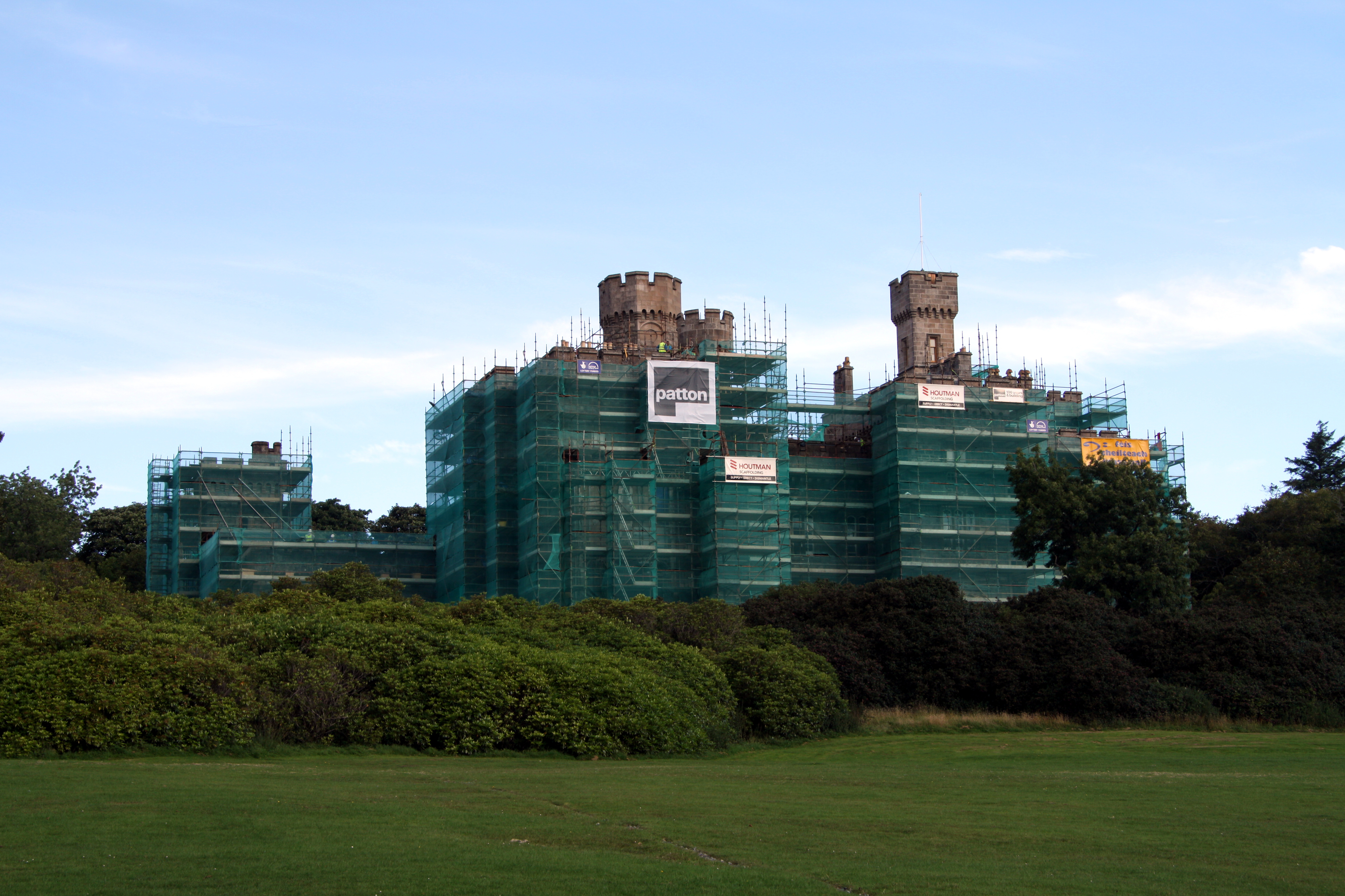 Town Stornoway in Outher Hebrids, Scotland - Google Maps - Google Earth